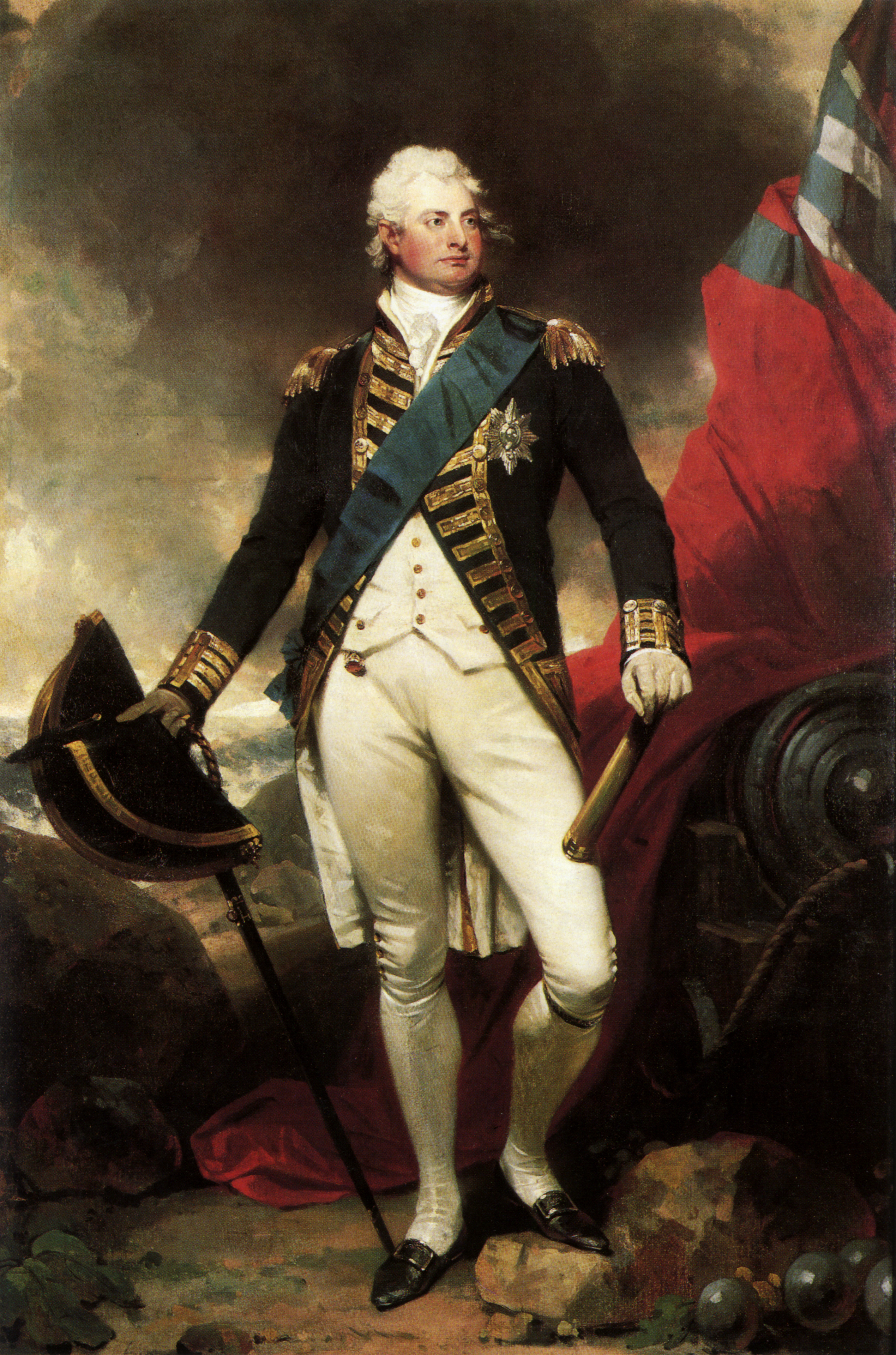 This image is a JPEG version of the original PNG image at File: William IV by Sir Martin Archer Shee.png. Generally, this JPEG version should be used when displaying the file from Commons, in order to reduce the file size of thumbnail images. However, any edits to the image should be based on the original PNG version in order to prevent generation loss, and both versions should be updated. Do not make edits based on this version. See here for more information. National Portrait Gallery: NPG 2199 While Commons policy accepts the use of this media, one or more third parties have made copyright claims against Wikimedia Commons in relation to the work from which this is sourced or a purely mechanical reproduction thereof. This may be due to recognition of the "sweat of the brow" doctrine, allowing works to be eligible for protection through skill and labour, and not purely by originality as is the case in the United States (where this website is hosted). These claims may or may not be valid in all jurisdictions. As such, use of this image in the jurisdiction of the claimant or other countries may be regarded as copyright infringement. Please see Commons:When to use the PD-Art tag for more information.See User:Dcoetzee/NPG legal threat for original threat and National Portrait Gallery and Wikimedia Foundation copyright dispute for more information. This tag does not indicate the copyright status of the attached work. A normal copyright tag is still required. See Commons:Licensing.